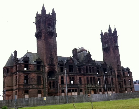 Gartloch Hospital, First opened as Gartloch Asylum, Taken May 2012. For use in Gartloch article and possibly Gartloch Hospital if ever enough info to split off.